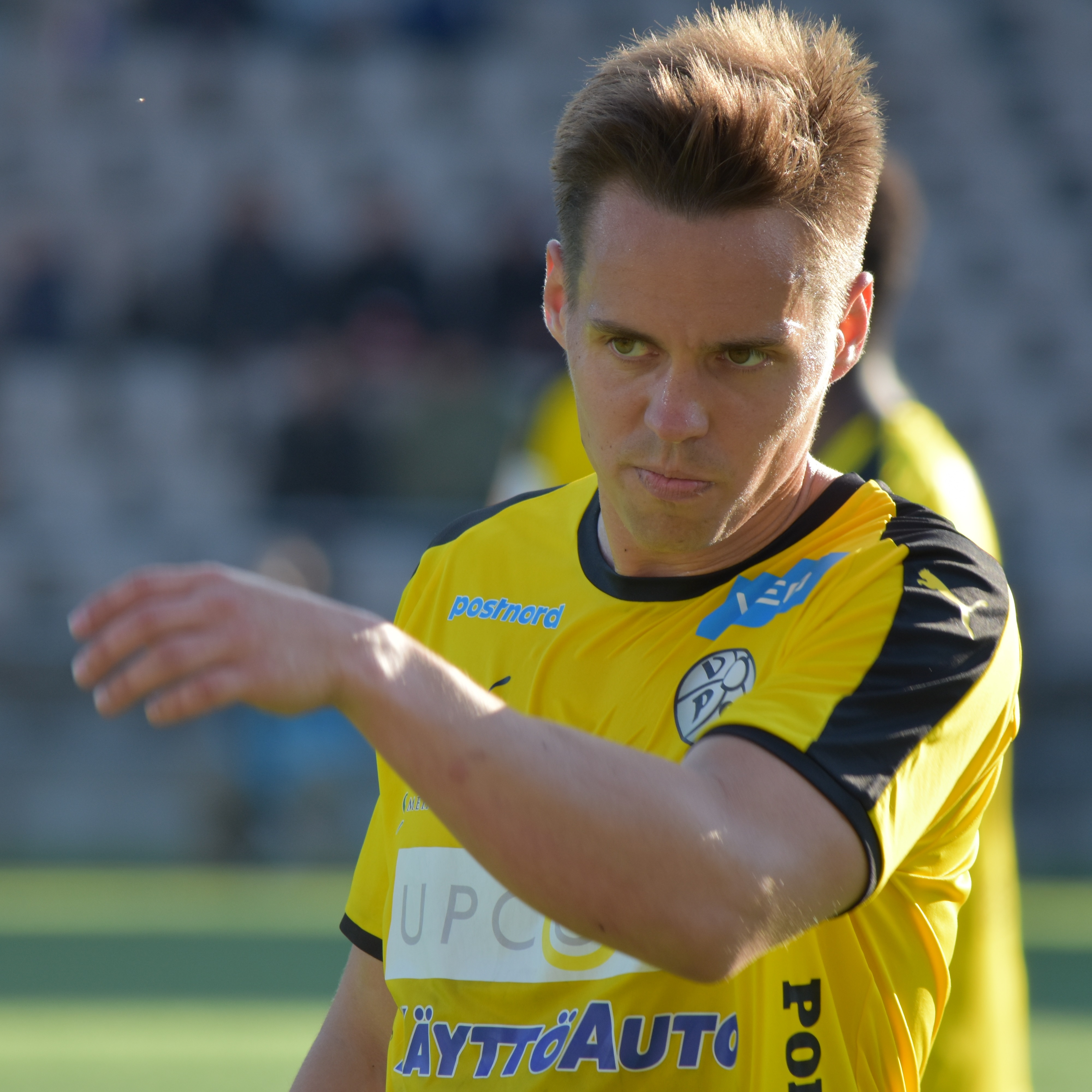 Association football player Juha Hakola (VPS)